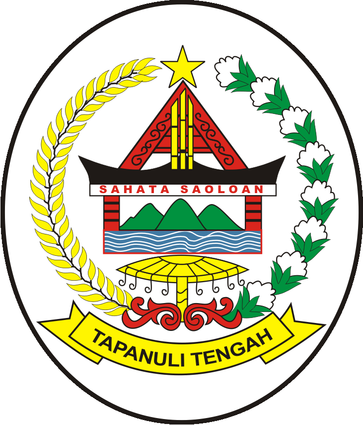 Lambang (Coat of Arms) of Kabupaten (Regency) Tapanuli Tengah (Central Tapanuli), Provinsi Sumatera Utara (North Sumatra Province), Indonesia